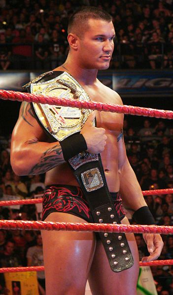 Randy Orton in his first reign as WWE Champion. No Mercy, Allstate Arena, Rosemont, Illinois, October 7en:2007. Taken by me, cropped, rotated, and brightened.